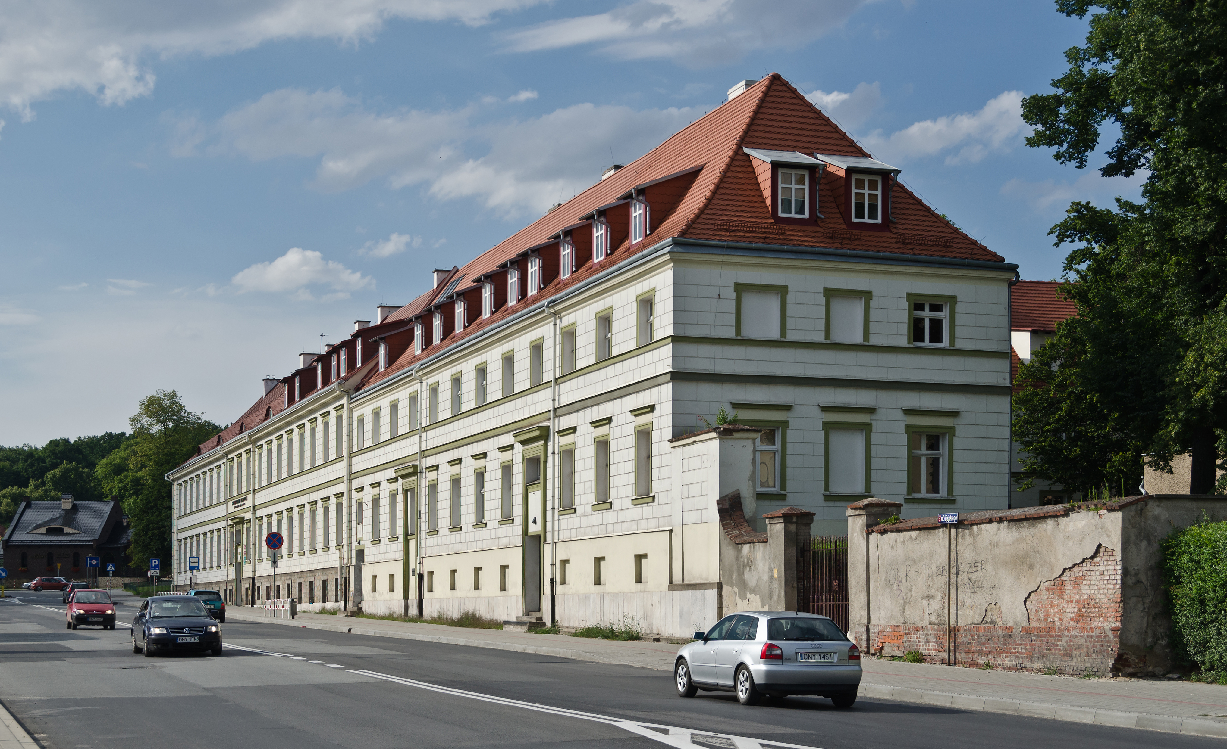 12 Ujejskiego Street in Nysa